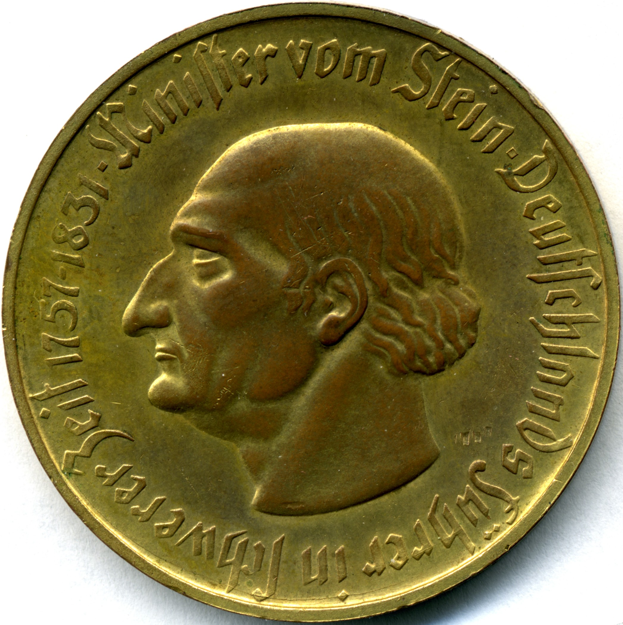 Five million mark coin, notgeld, Weimar Republic 1923